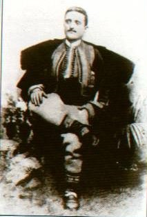 Sarafin Markoski from Globočica- participant in the Ilinden Uprasing. Macedonia